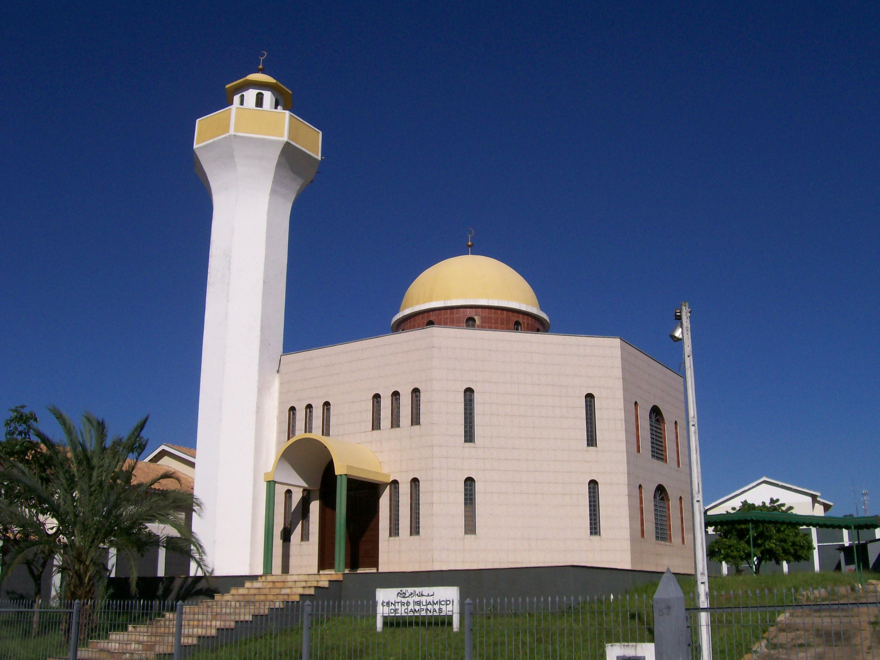 Islamic Centre of Campinas, a mosque situated in Campinas, Brazil.